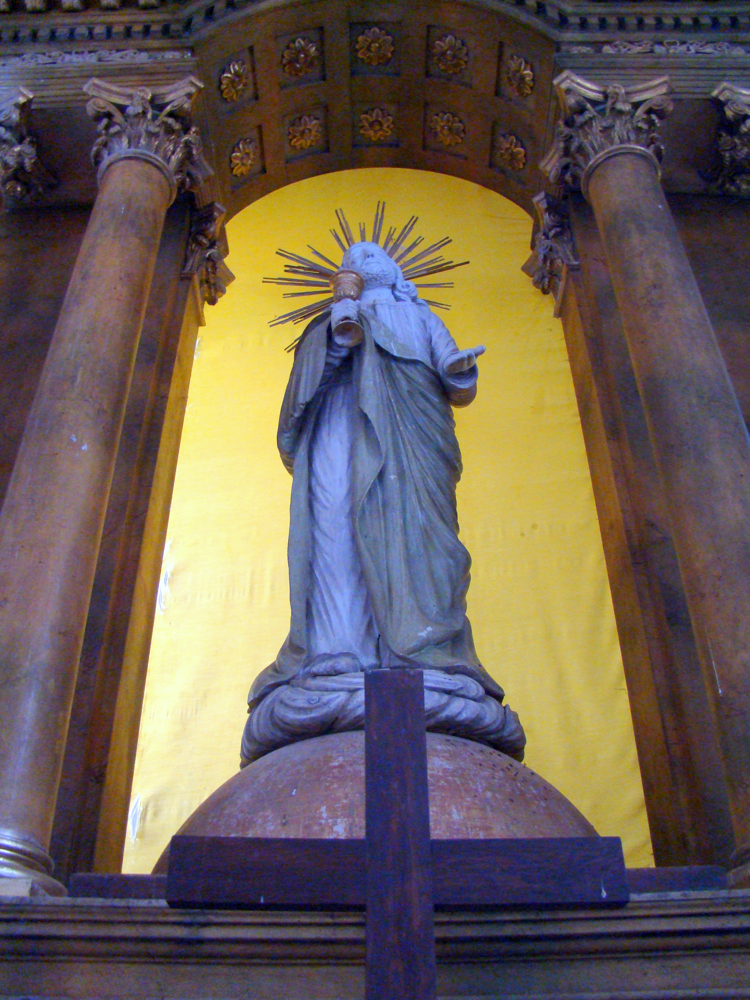 Fortified church in Ungra, Braşov County, Romania